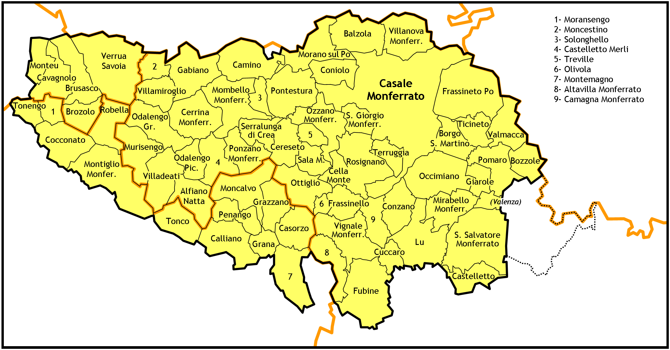 Map of Casale's Diocese